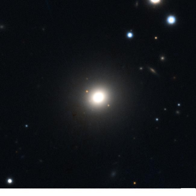 PanSTARRS image of NGC 687.